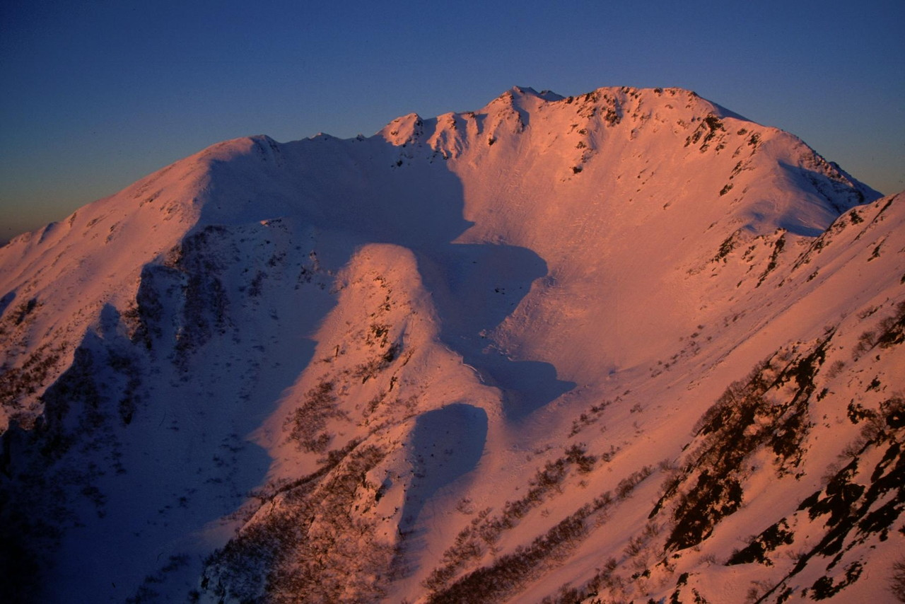 Mount Senjyō from Mount Kosenjō